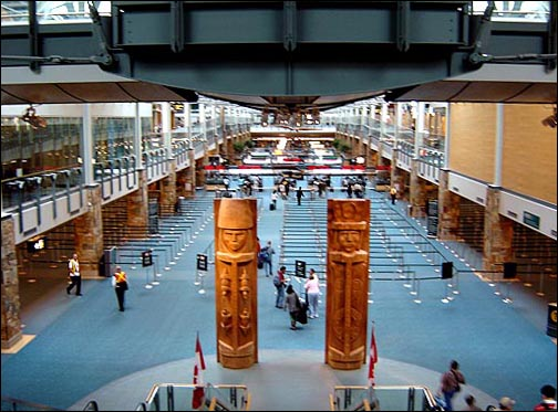 International arrivals hall, Vancouver International Airport, with "Welcome Figure" sculptures by Susan A. Point. Location: Vancouver International Airport, Richmond, British Columbia, Canada Details